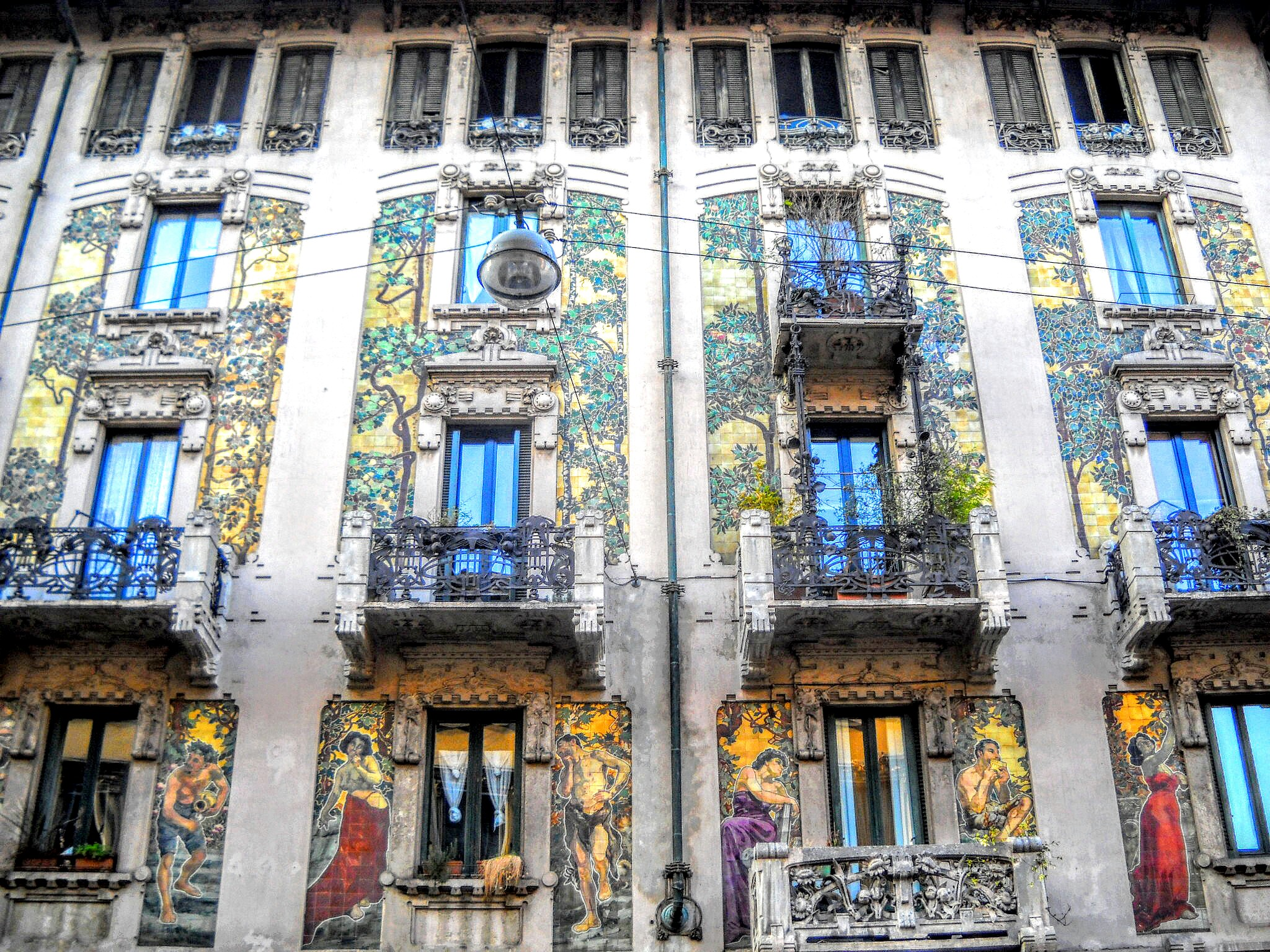 Facade of Casa Galimberti, Milan. Modified version